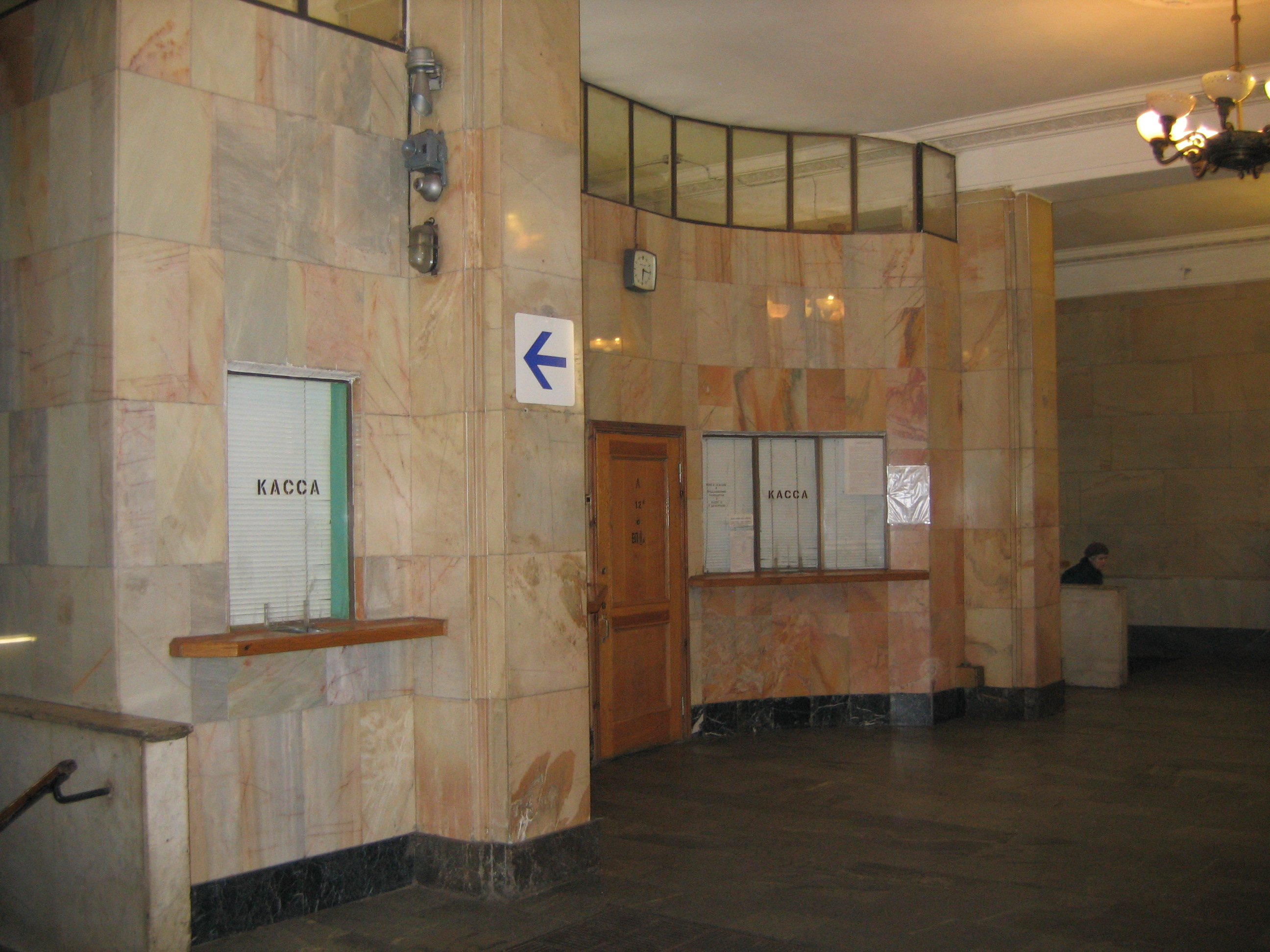 Moscow Metro, Aleksandrovsky Sad station vestibule Author: Andrey Volykhov, Moscow, Russia Date: 17 March 2006